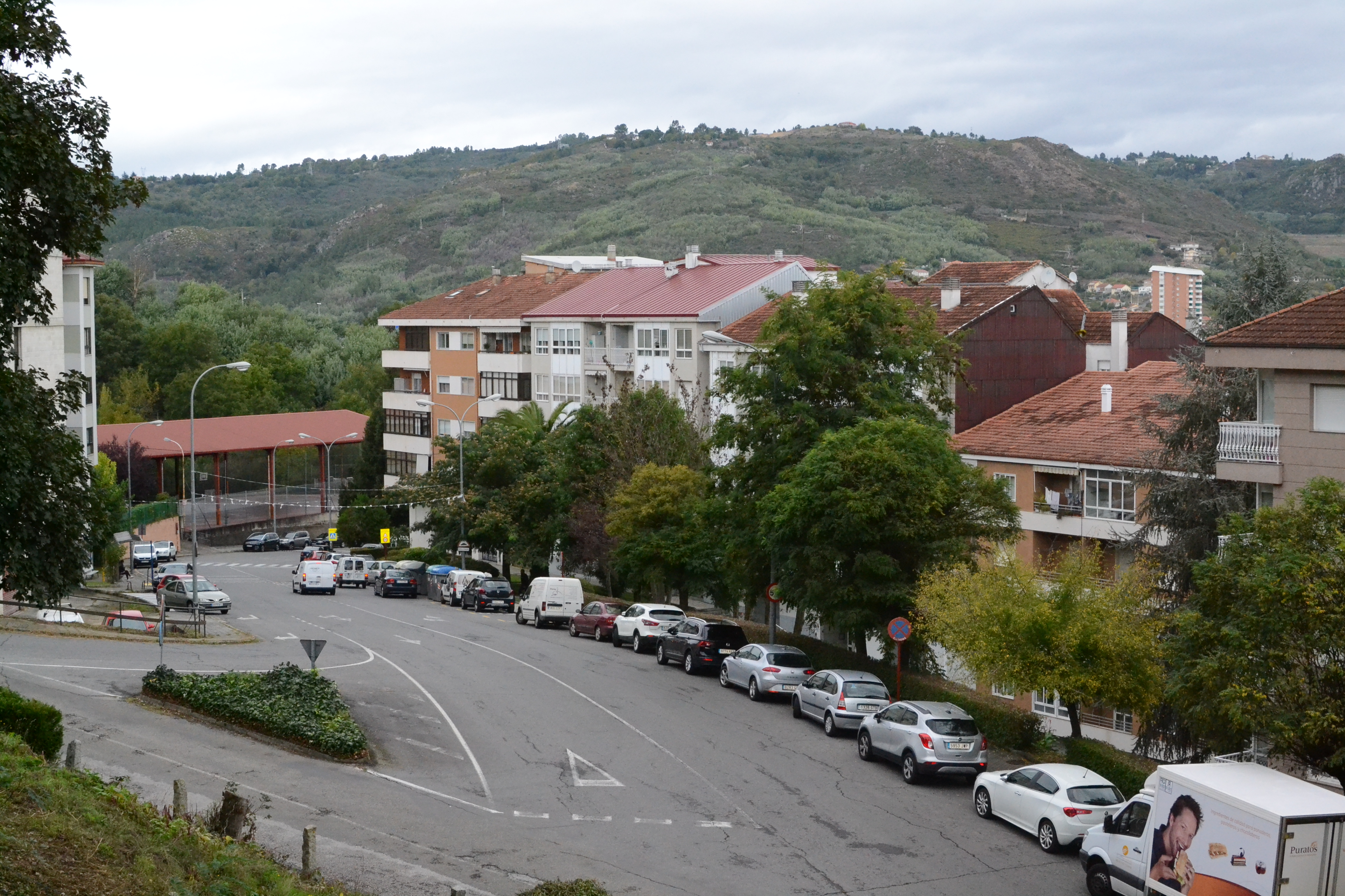 Vista Fermosa, Ourense.